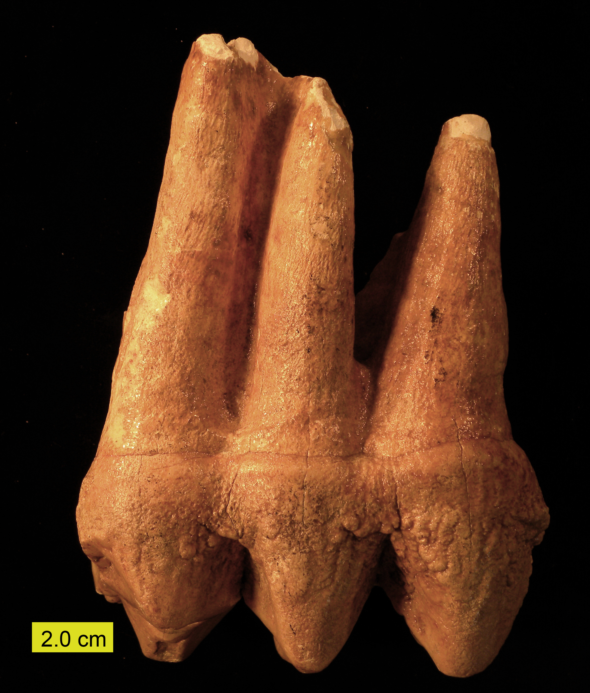 Mammut tooth side view (Pleistocene, Holmes County, Ohio).